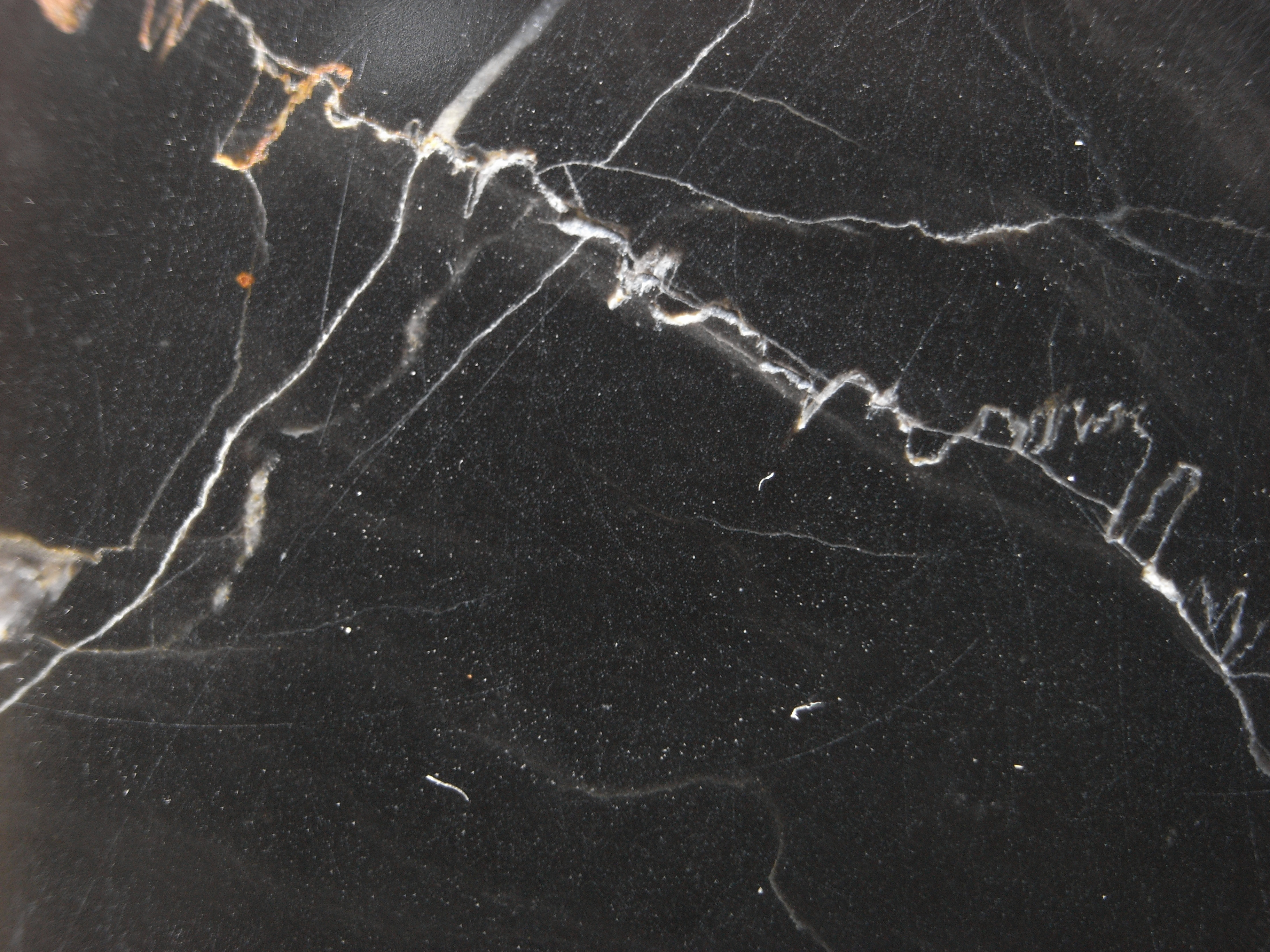 Stylolites in Zarnov limestone, Slovakia